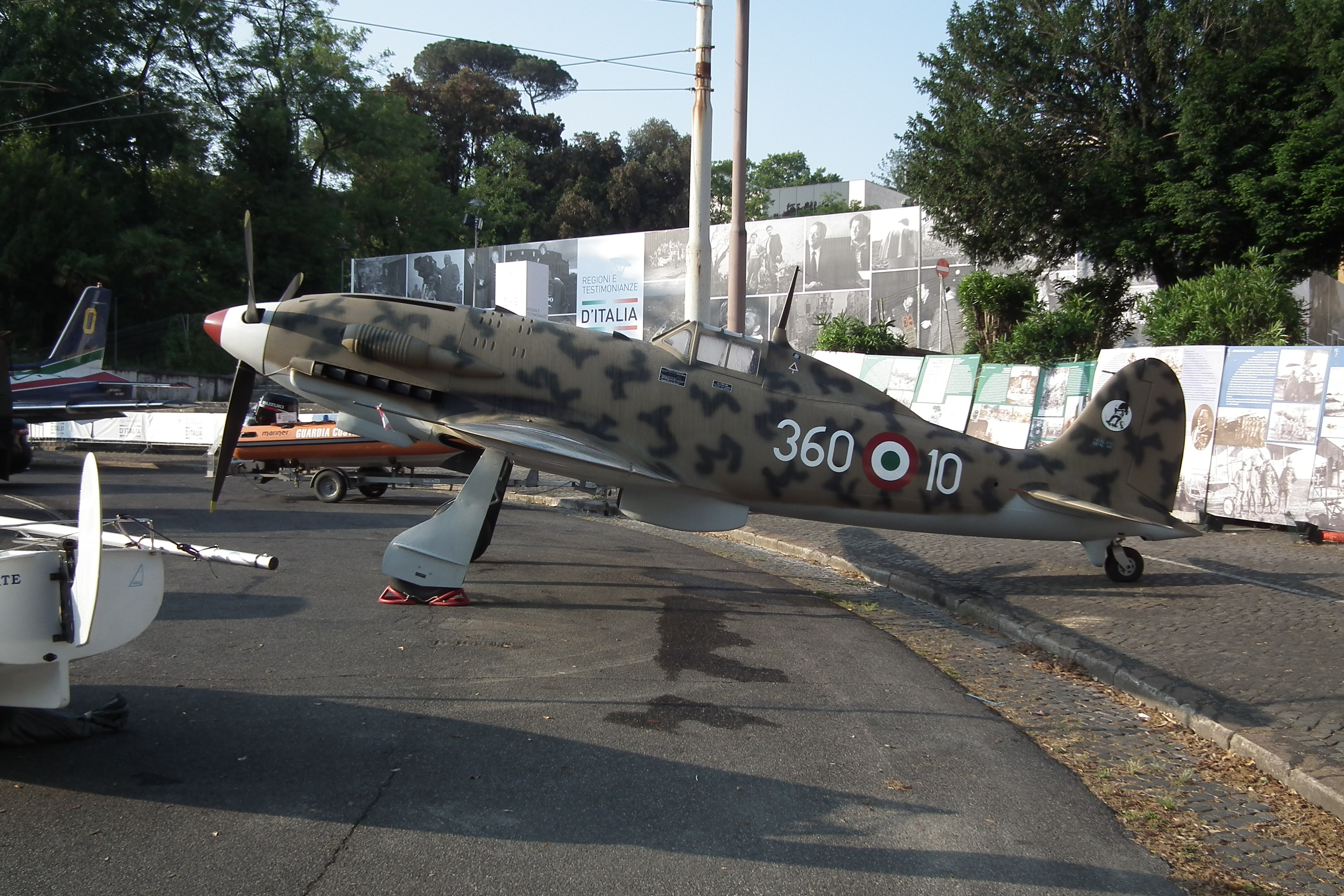 Italian Military plane. Display to celebrate the 150th Anniversary of the unification of Italy. Taken in Rome, Italy.